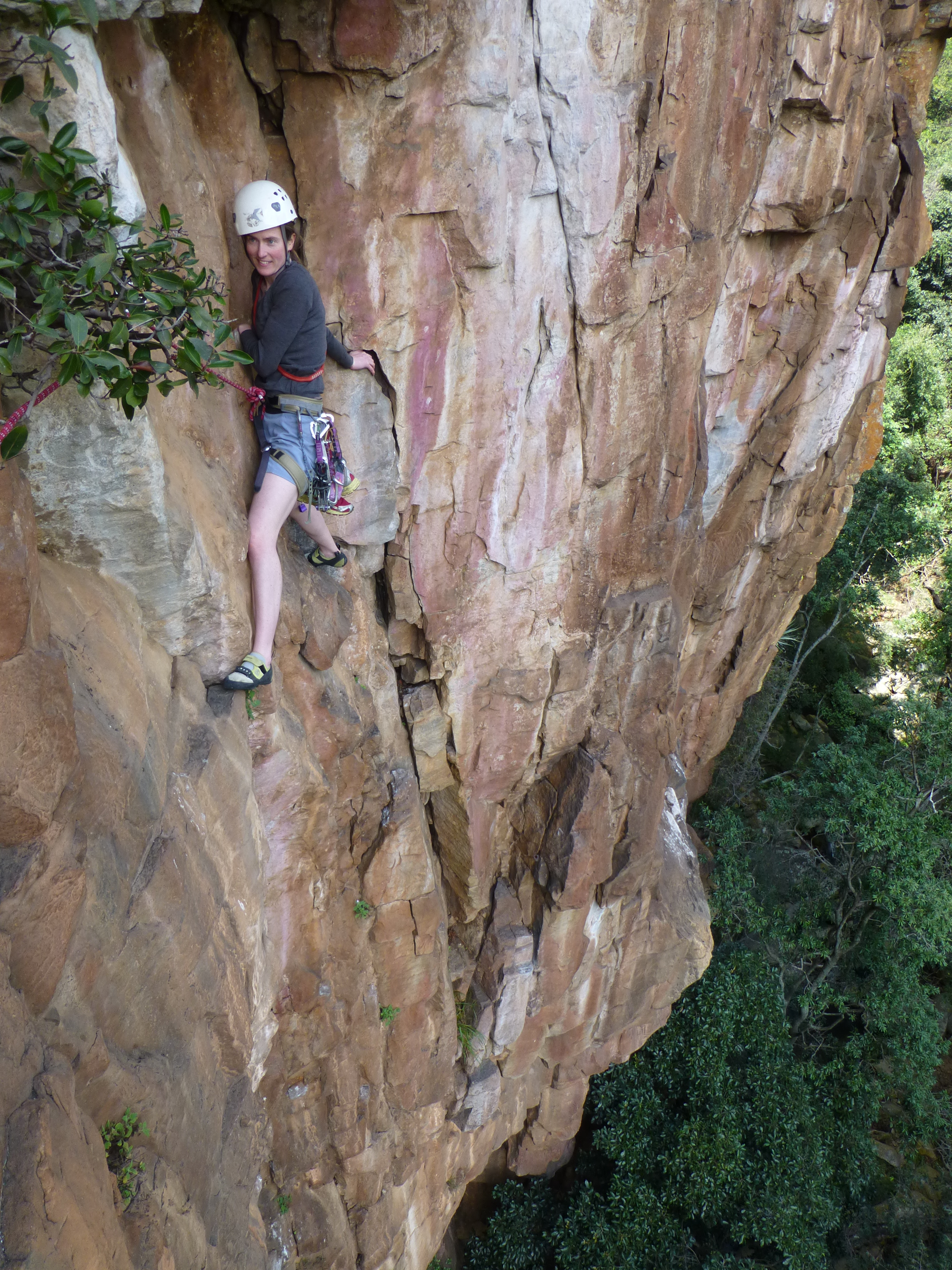 Rock climber, Tonquani Kloof, Magaliesberg, South Africa